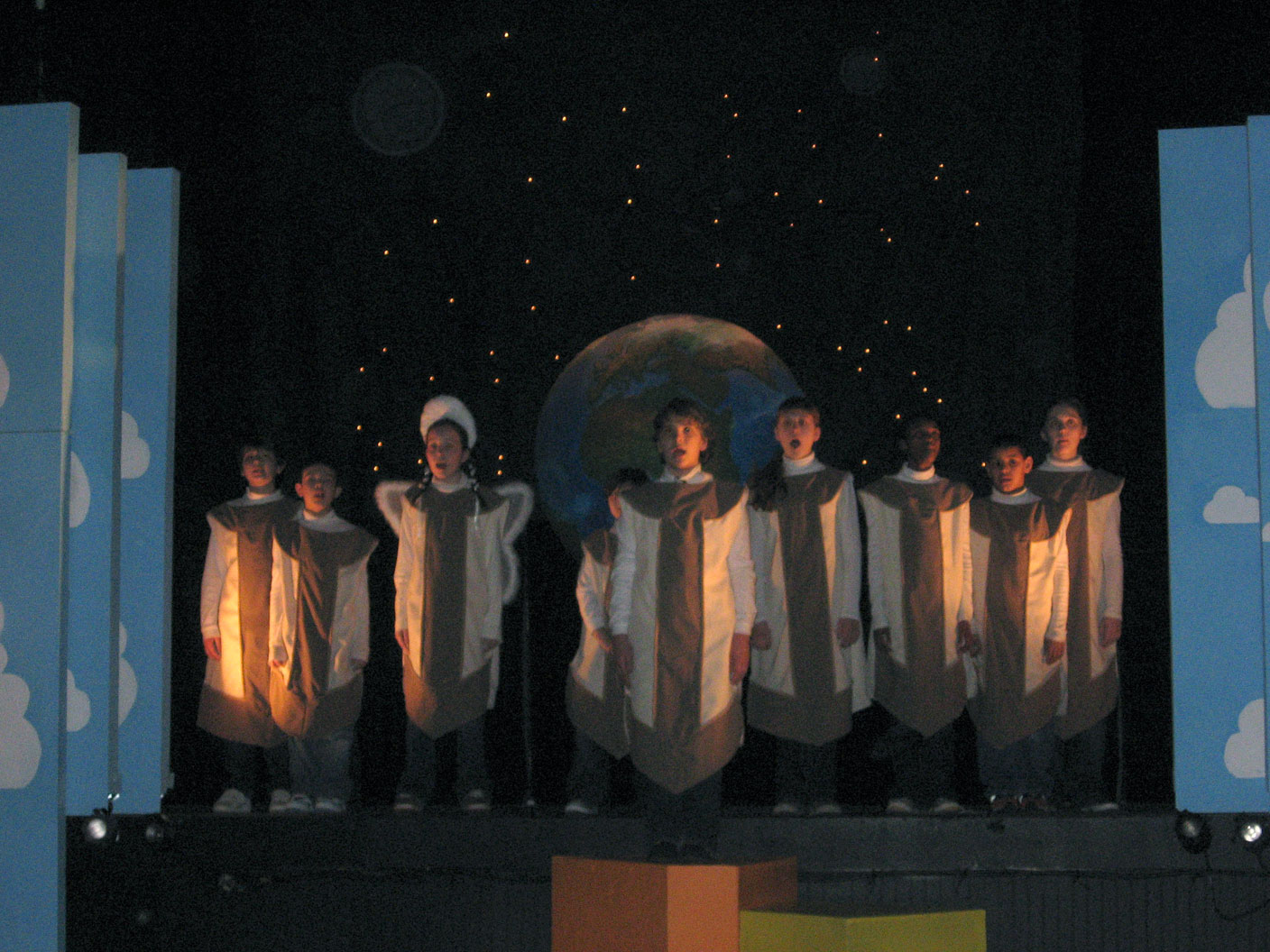 A Very Merry Unauthorized Children's Scientology Pageant, ending scene, with cast members standing at the back of the theatre as the lights fade.